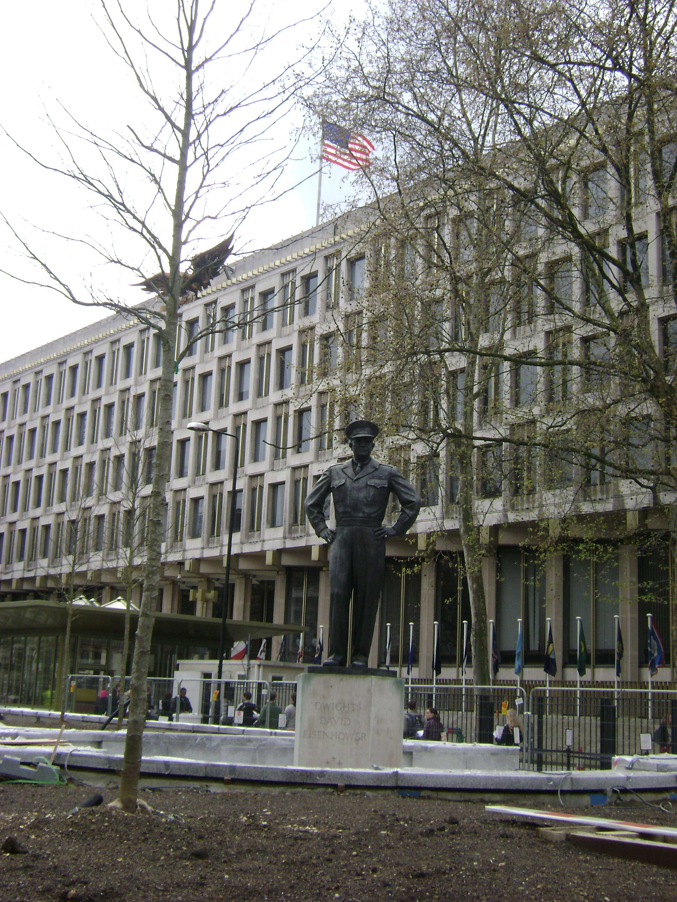 A statue of General Eisenhower in front of the Embassy of the United States of America to the Court of St. James's